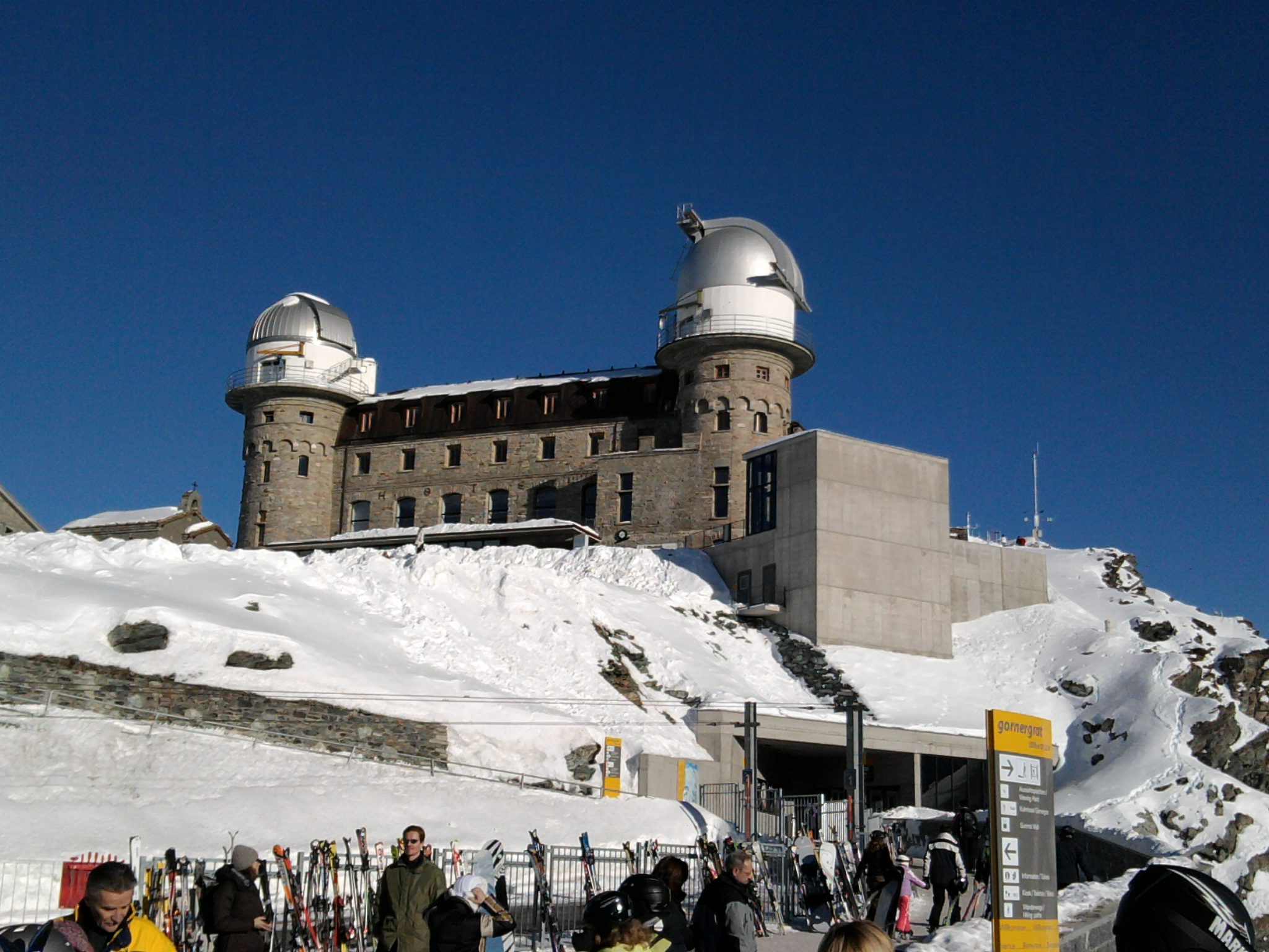 Gornergrat